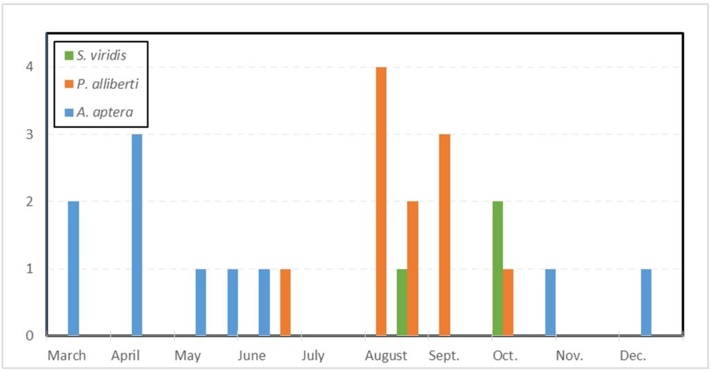 Recorded phenology for all Portuguese citations of Perlamantis allibertii (orange), Apteromantis aptera (blue) and Sphodromantis viridis (green). Diagram based on the data from Suppl. material 1.